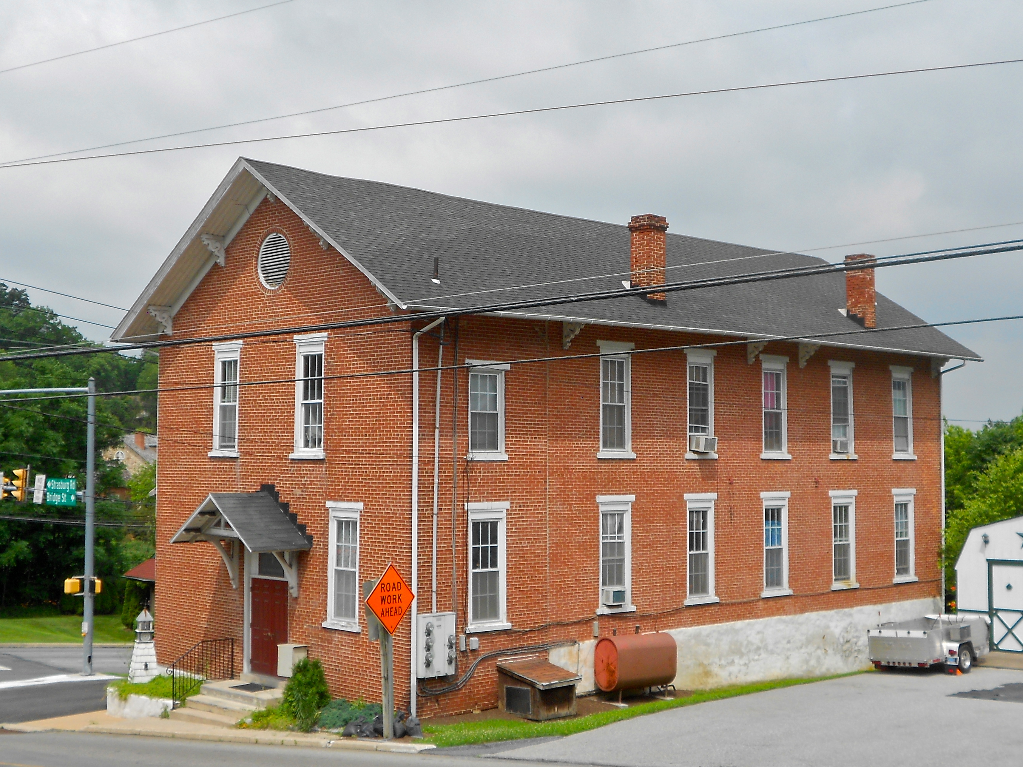 Building in the village of Gap, Pennsylvania